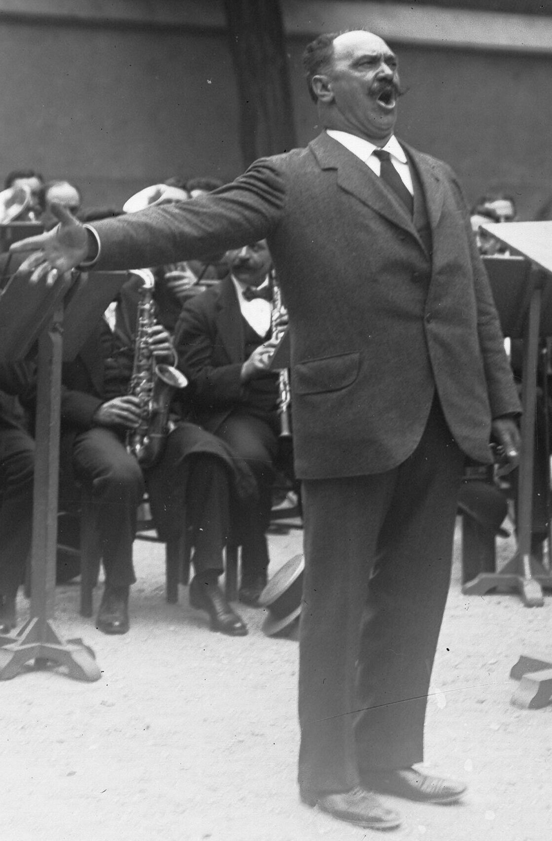 Belgian opera singer Jean Noté (1858-1922) singing at a military hospital in Meaux in 1915